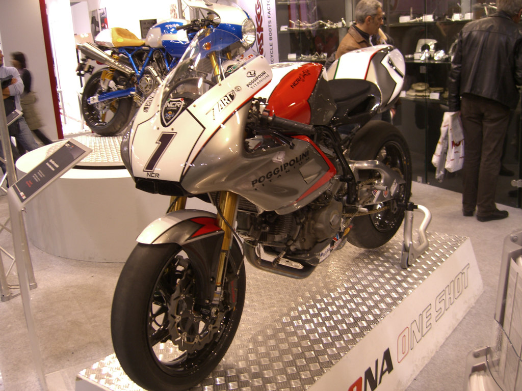 NCR Millona One Shot, evolution of the NCR 100One and the Bimota 666 LE